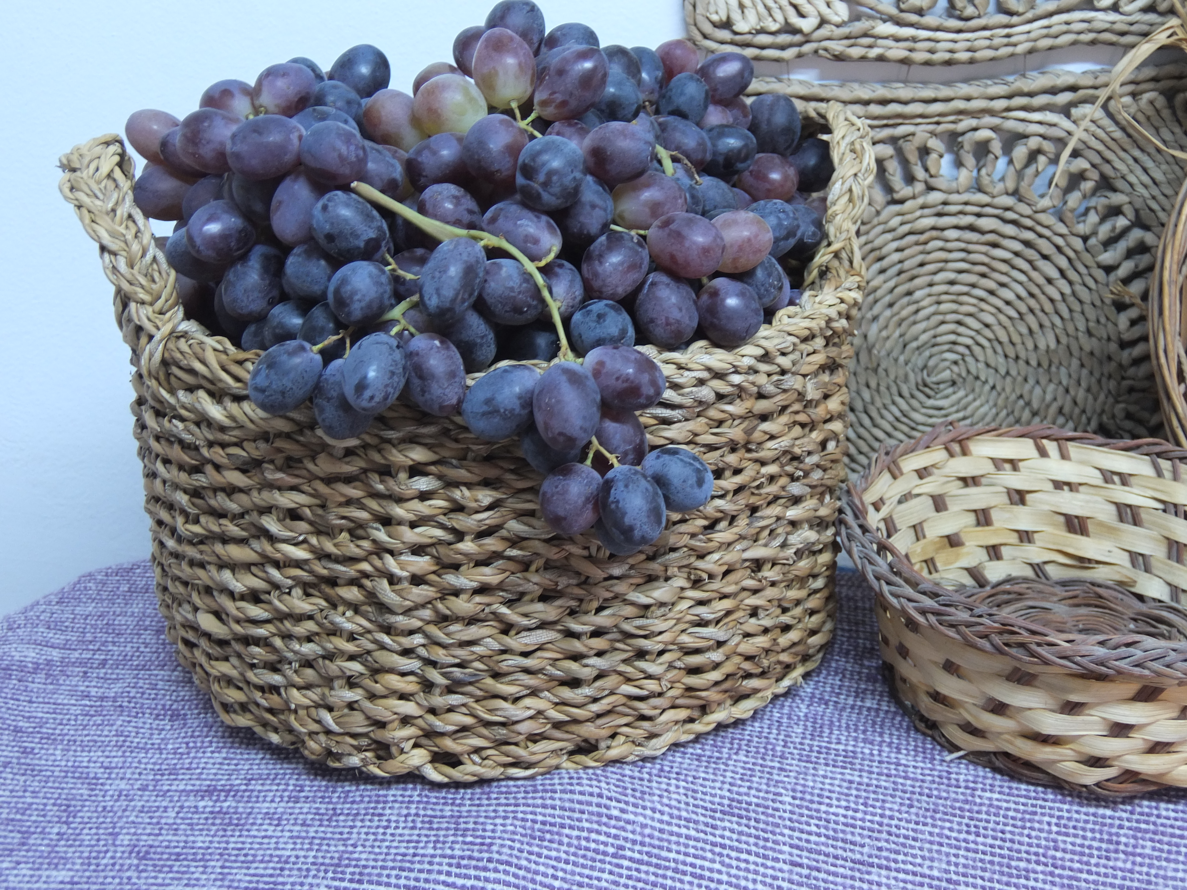 Harvested grapes in basket